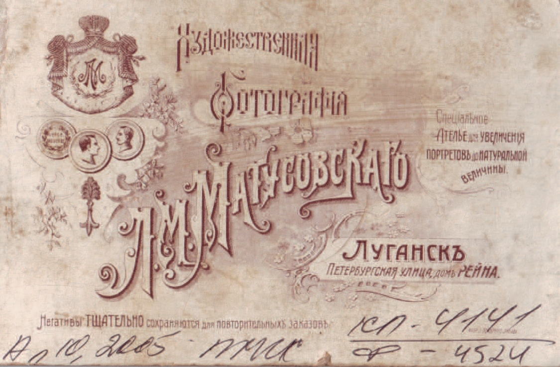 Lev Matusovsky’s passe-partout.